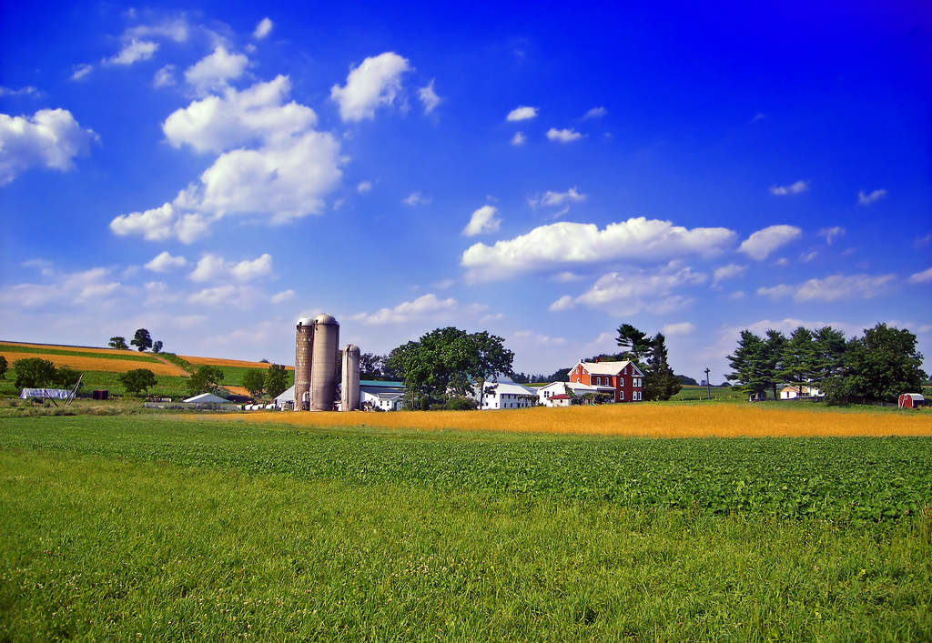 Farmstead, Maxatawny Township, Berks County.